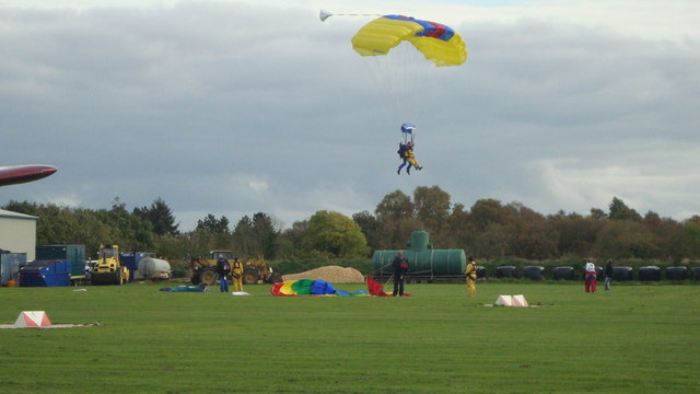 Irish Parachute Club: Clonbullogue The Irish Parachute Club has been operational since 1956 and is one of the longest running non military/non commercial parachute clubs in the world - in 2006 we celebrated their 50th anniversary. They are constantly striving to improve their facilities and aircraft, most recently this is evident in our purchase of a turbine Pilatus Porter PC-6 (10 skydiver aircraft) and more recently of a turbine Cessna 206 (6 skydivers) which, much to the delight of regular skydivers, allows them to fly higher, faster! They are currently planning to fully tarmac the runway before the end of the year. Static line, Tandem and Accelerated FreeFall courses are all available at the IPC for the novice who want to start skydiving; for the experienced skydiver, Freefly and Canopy Piloting courses are also available, as well as regular weekend FS Load Organising.